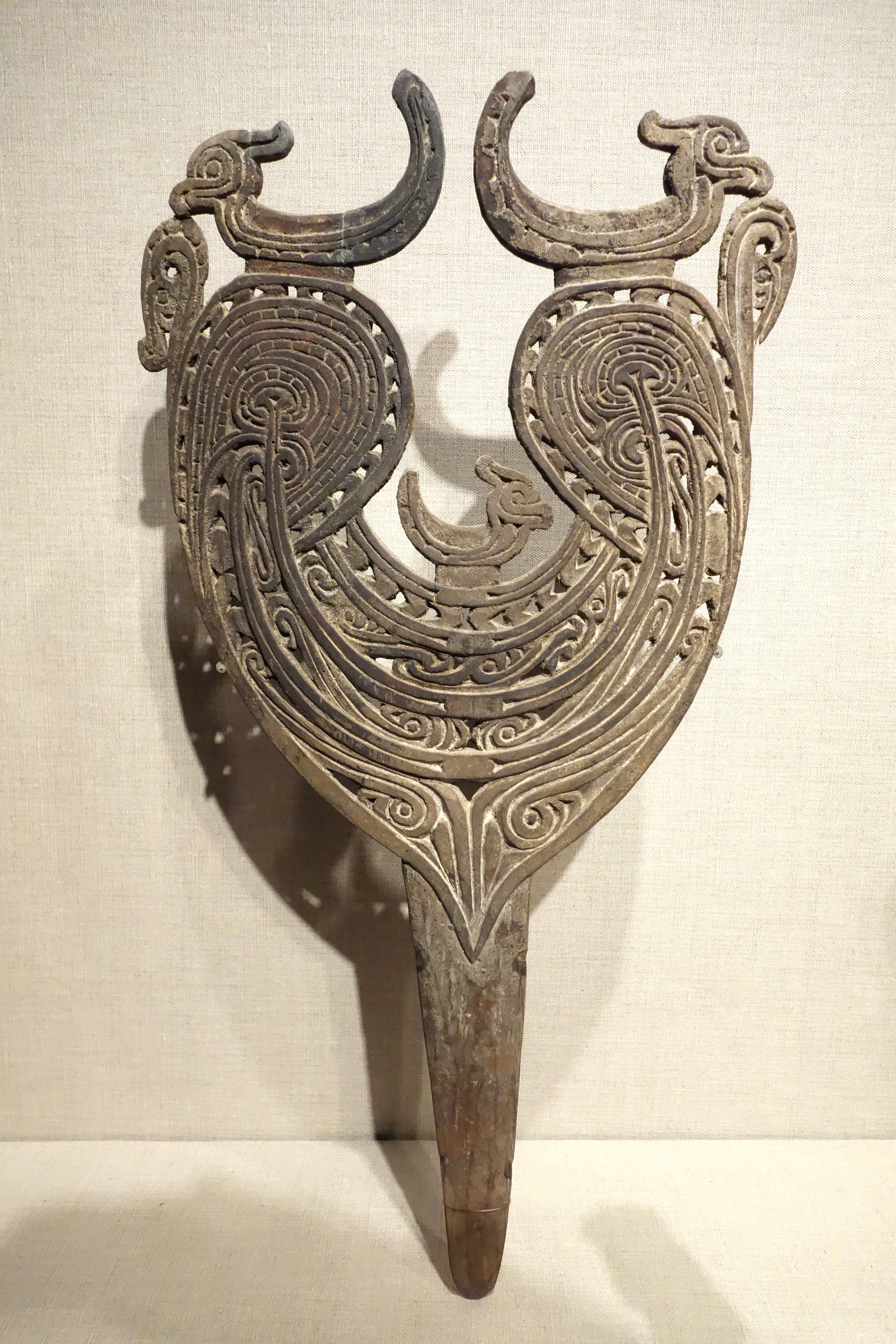 Exhibit in the De Young Museum, San Francisco, California, USA. This artwork is in the public domain because the artist died more than 70 years ago.